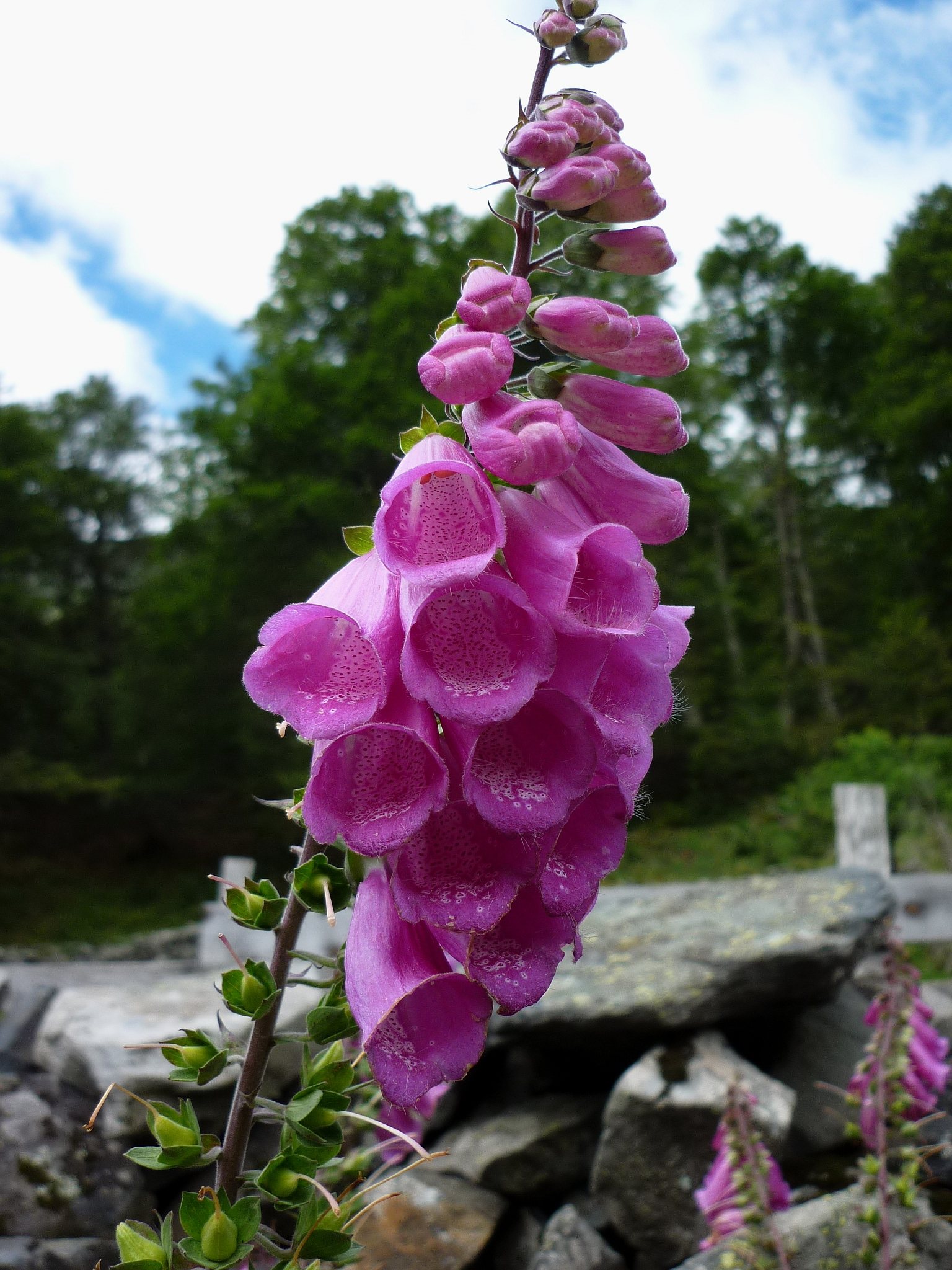 Digitalis purpurea. In Vielha e Mijaran (Val d'Aran - Catalunya. To 1.470 m altitude